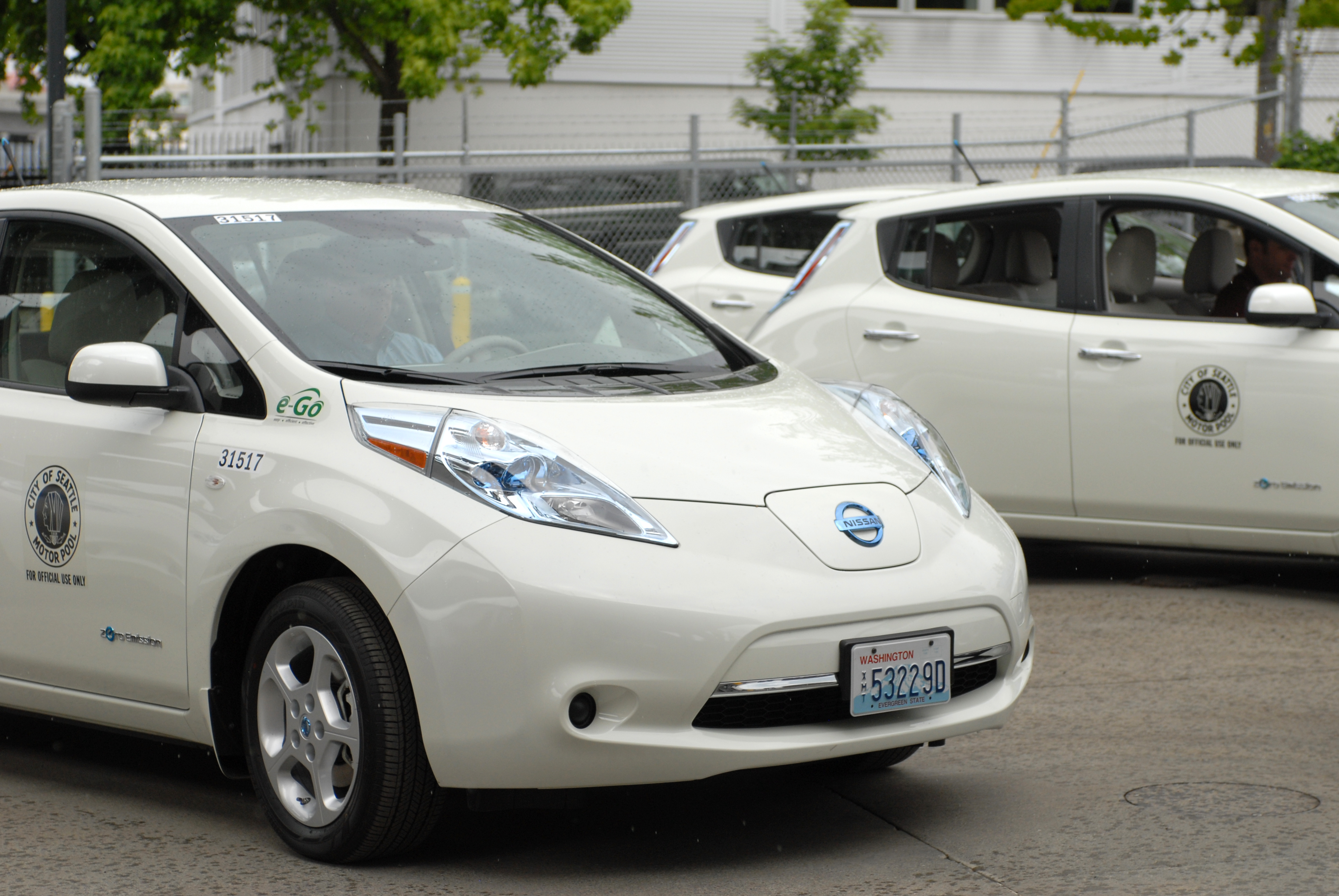 Nissan Leaf electric cars added to Seattle City fleet, Washington.